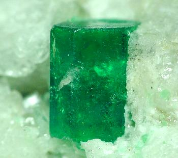 Beryl (Var.: Emerald) Locality: Muzo Mine, Muzo, Vasquez-Yacopí Mining District, Boyacá Department, Colombia (Locality at ) A REALLY deeply-colored, gemmy, forest-green emerald crystal, 9 x 7 x 6 mm in size, embedded in contrasting calcite matrix. The crystal is 9mm tall and is mostly transparent. The quality is very high because of the EXCELLENT forest-green color and clarity, as compared to many such specimens. Also, its legit - guaranteed not to be "helped" in any way (the Columbians call it "stabilizing" when they glue loose xls into matrix!) 5.5 x 4.5 x 4 cm